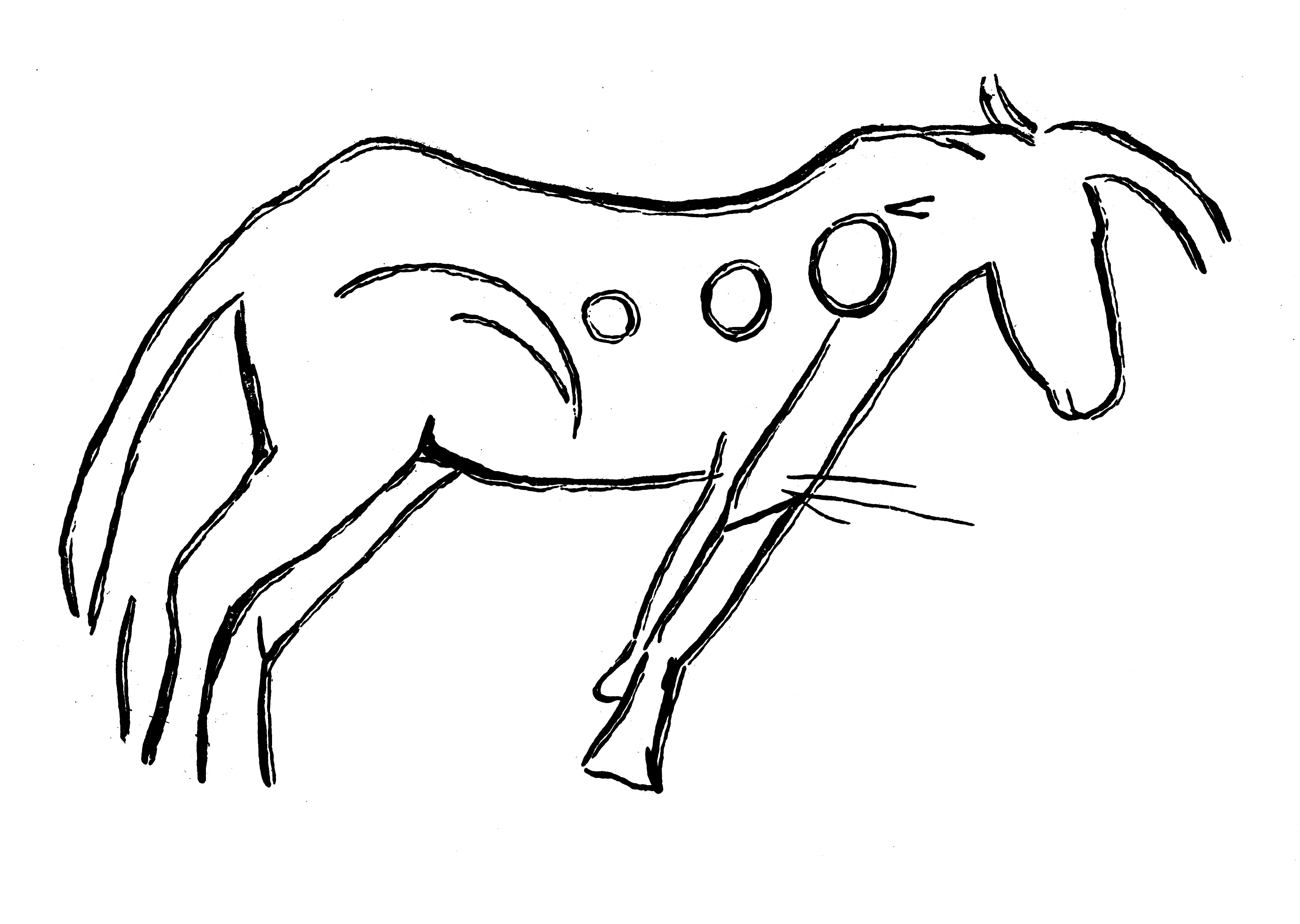 Engraving of a horse on the floor of the cave at Niaux (Ariege).